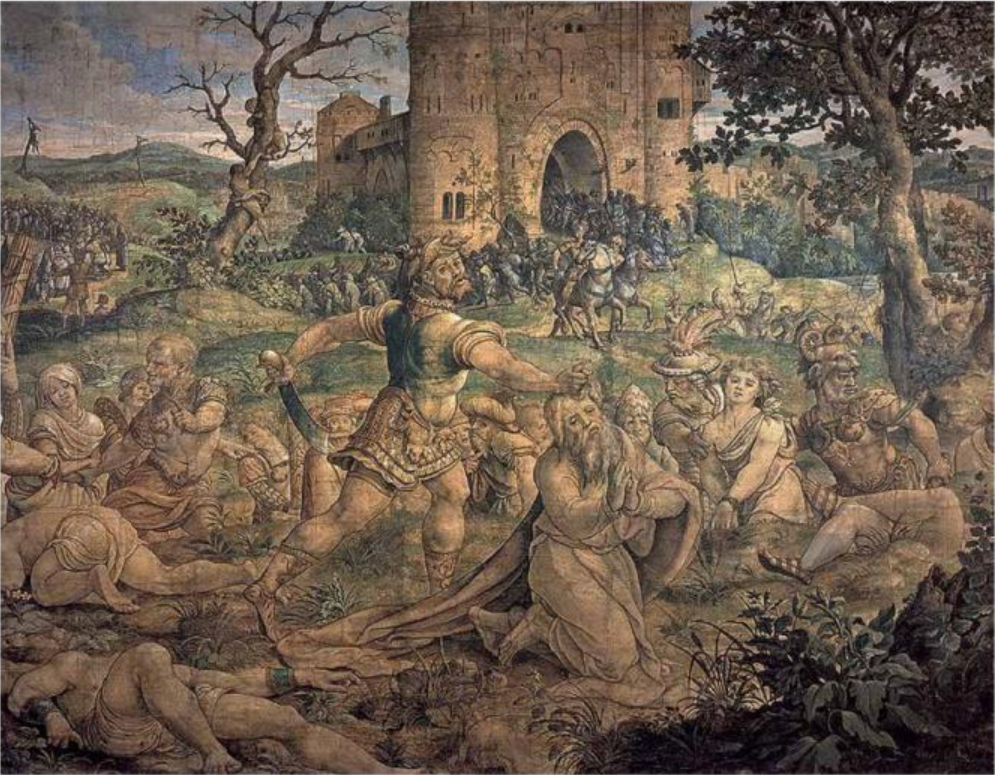 Martyrdom of Paul.